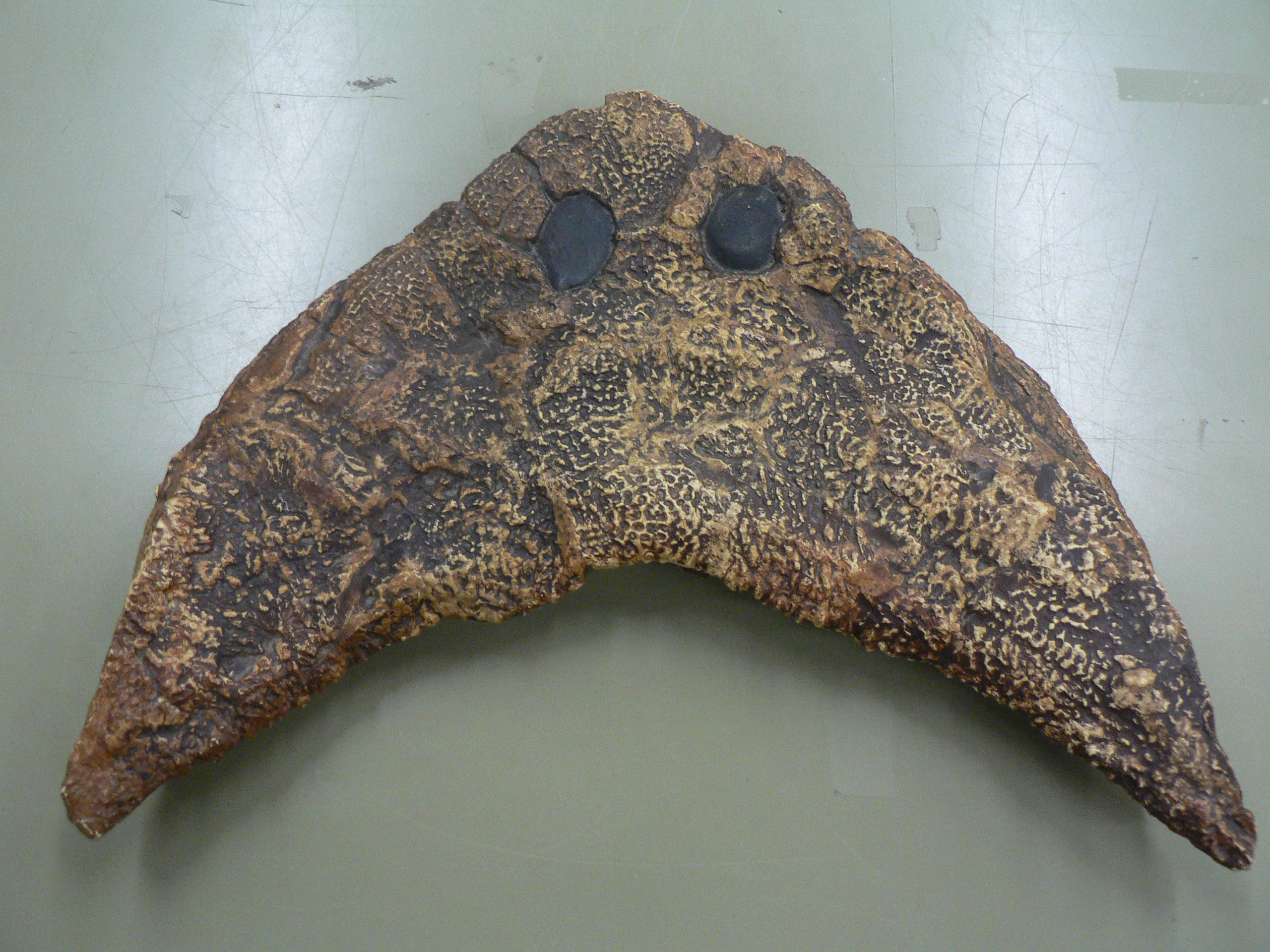 Cast of Nectridean skull. Taken at the University of Alberta Laboratory of Vertebrate Paleontology.